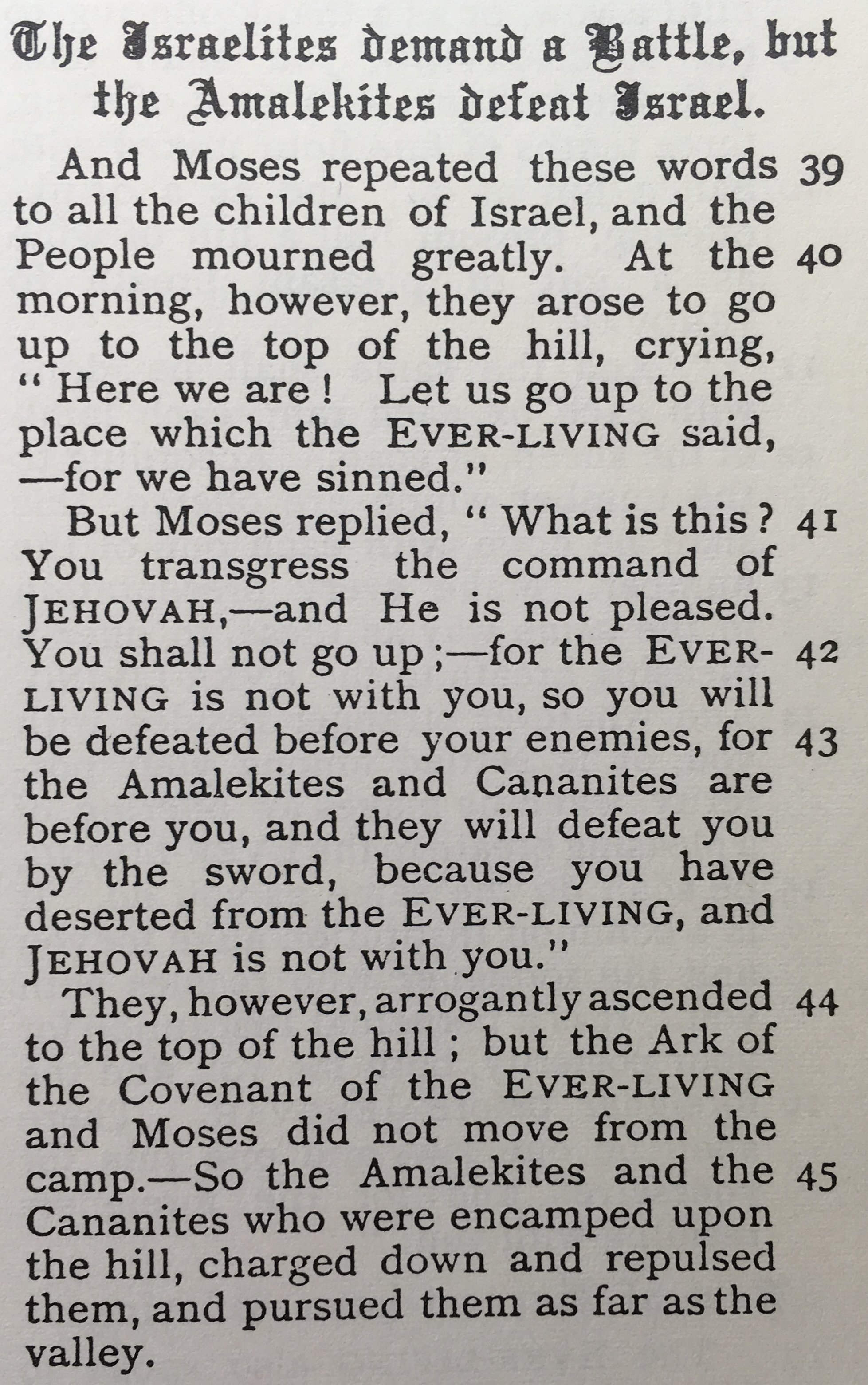 This is a section from the Pentateuch, Number 14, showing an inconsistent pattern translating the tetragrammaton.